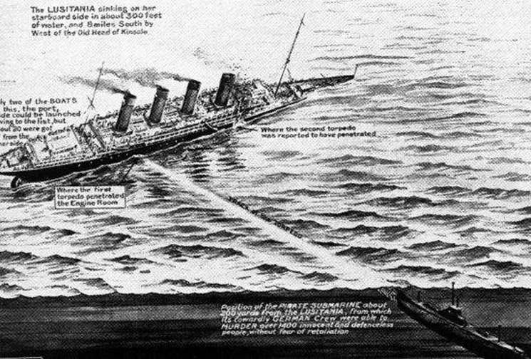 Some people were convinced that a second torpedo had hit the ship farther aft, between the third and fourth funnels, with far more devastating results.